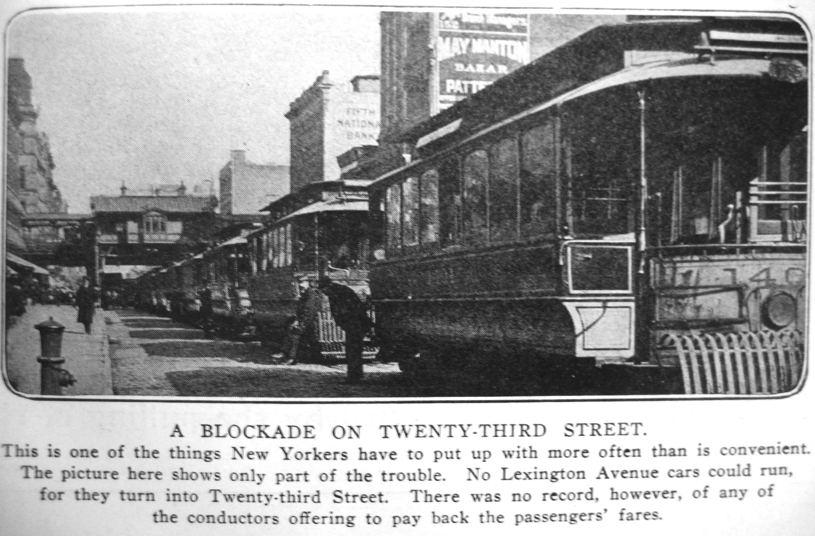 Row of streetcars on 23rd Street, New York City. Published in Vanity Fair Magazine June 6 1903